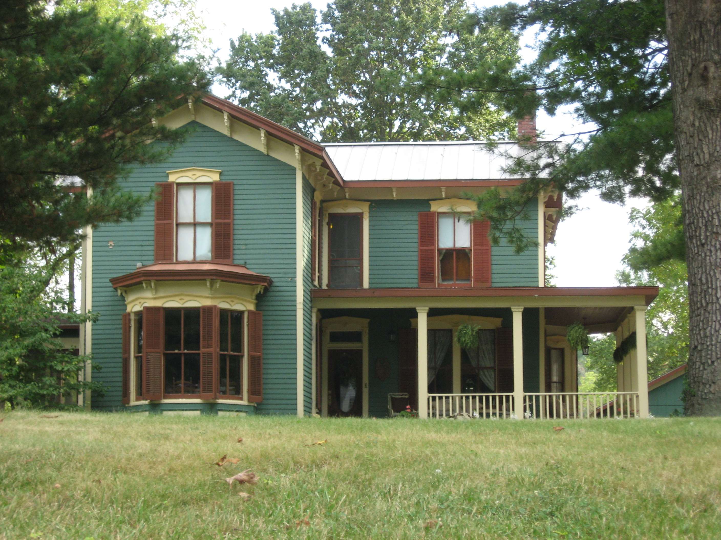 Front of the William W. Jarvis House, located at 317 E. Center Street (Illinois Route 162) in Troy, Illinois, United States. Built in 1867, it is listed on the National Register of Historic Places.